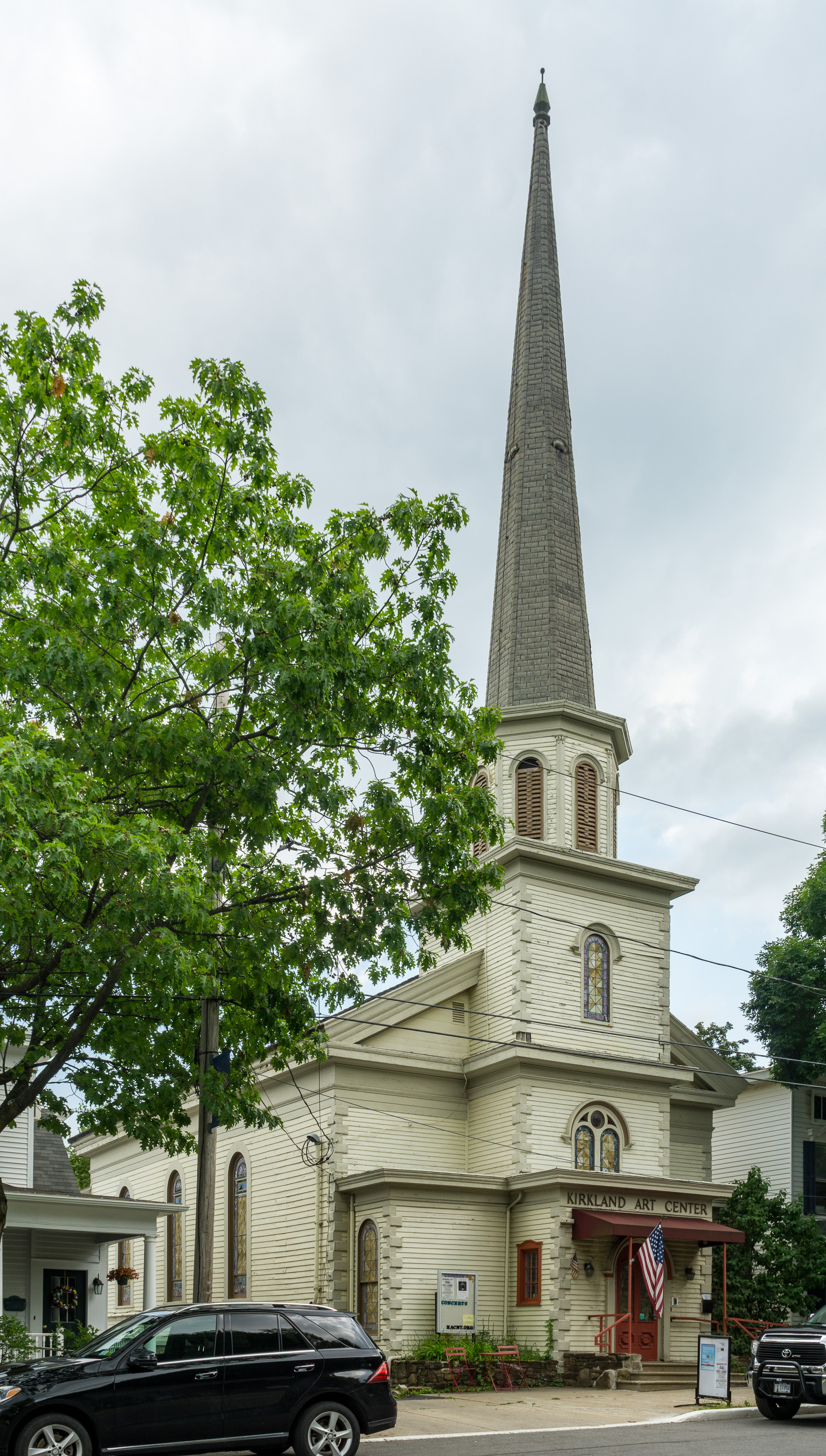 Kirkland Art Center in Clinton, Oneida County, New York, is located in a former Methodist Church built in 1840.